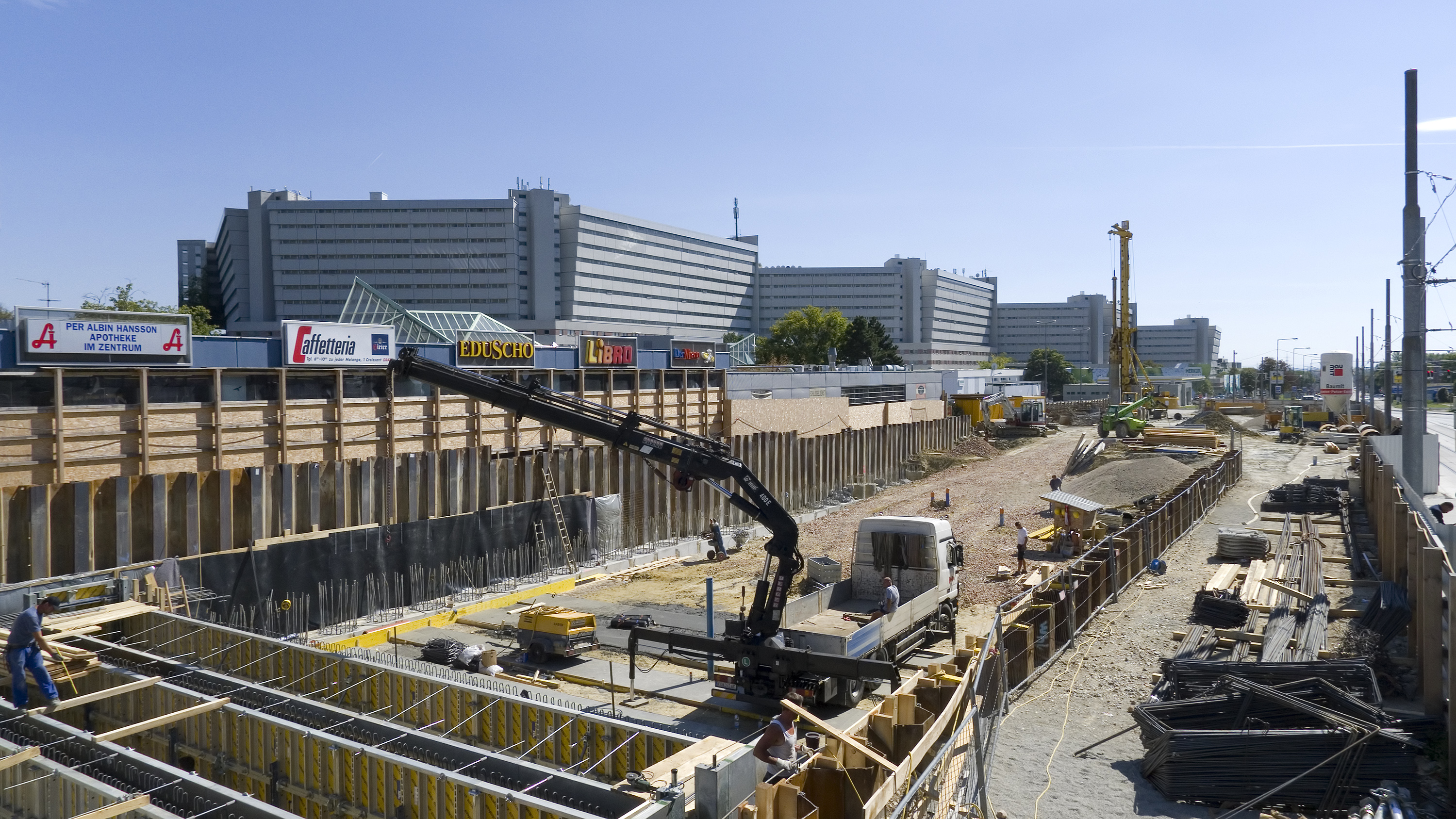 Underground station U-Bahn-Station Alaudagasse in Vienna 10